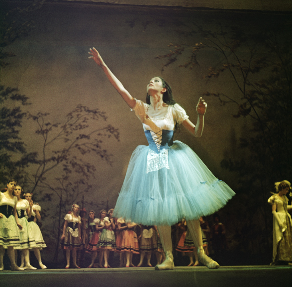 “A scene from "Giselle"”. Natelya Bessmertnova as Giselle. Music by Adolphe Adam. The State Academic Bolshoi Theatre.